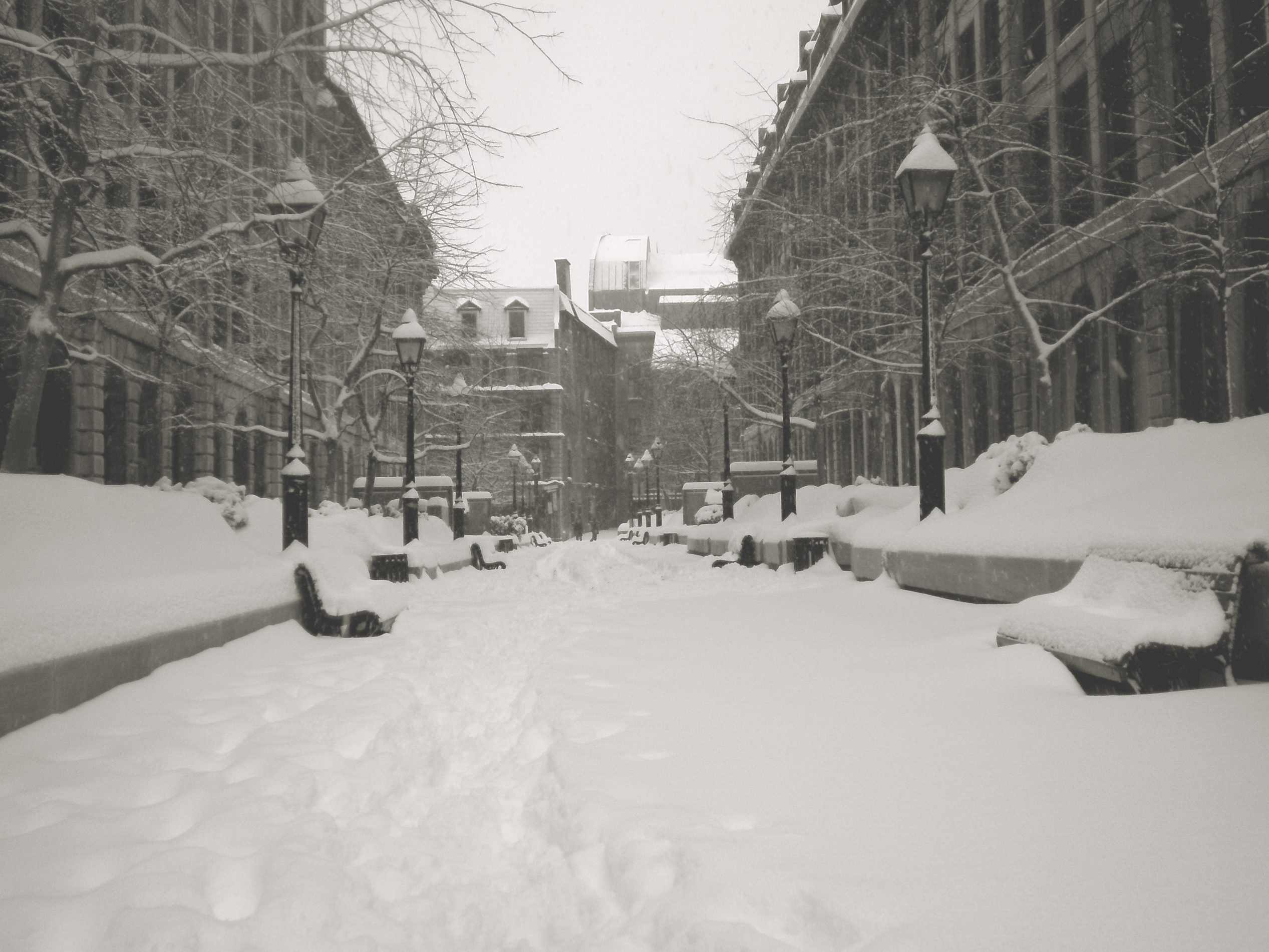 snow in Old Montreal, Montréal